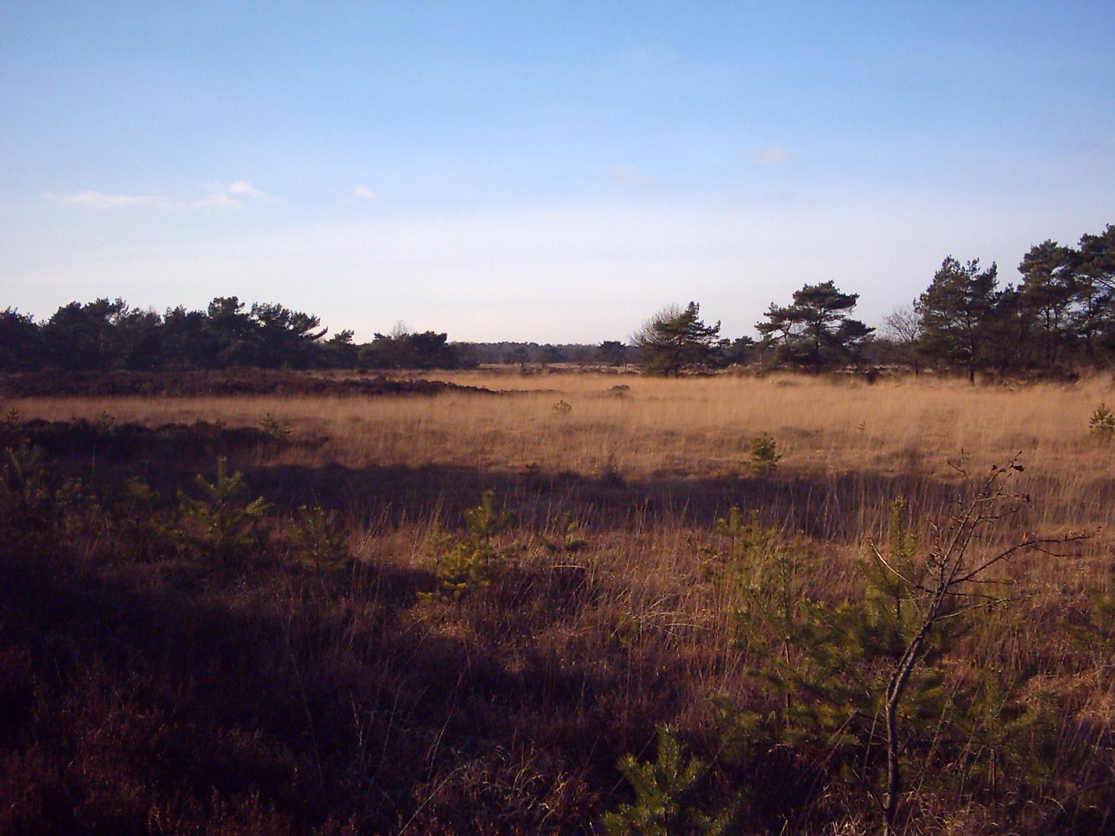 The Kalmthoutse Heide